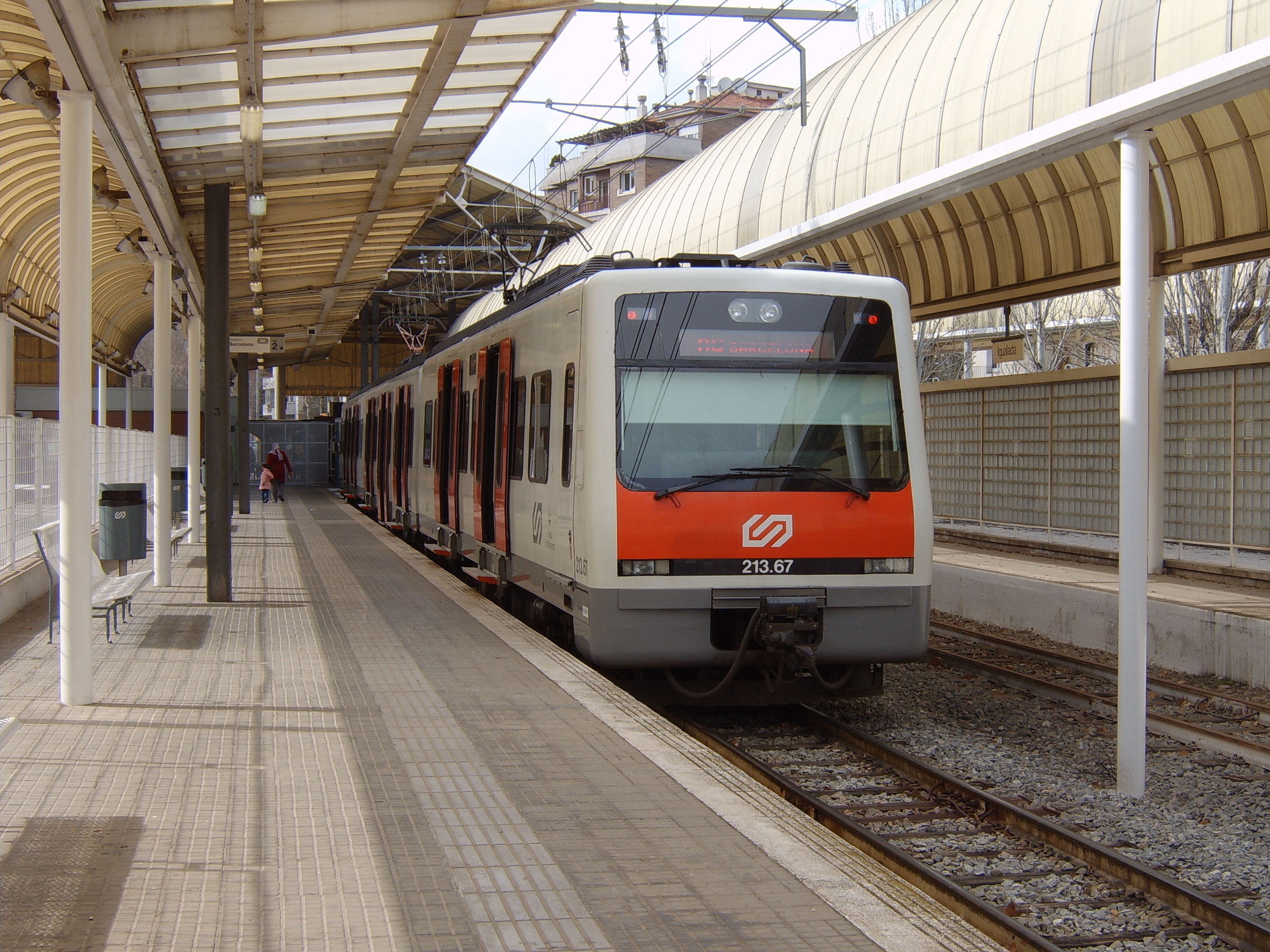 Ferrocarrils de la Generalitat de Catalunya (FGC) operate several lines in Barcelona which include 140km of metre-gauge lines extending out some distance from the city. These are known as the "Línies Catalanes". Seen at the end of one of the branches at Igualada station is EMU no. 213.67 ready to work the 15:39 Igualada to Barcelona Plaça d'Espanya on 20 March 2006.